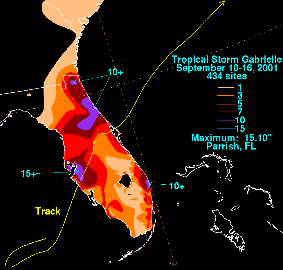 Rainfall produced by Hurricane Gabrielle during September 2001.